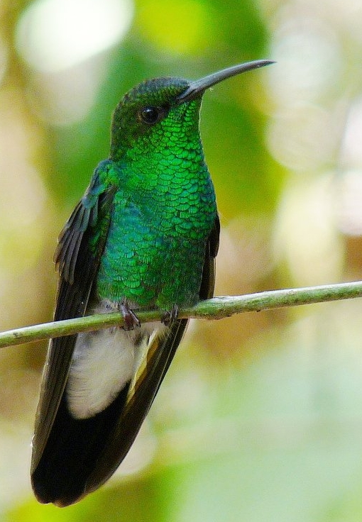 White-vented Plumeleteer (Chalybura buffonii) 1.jpg